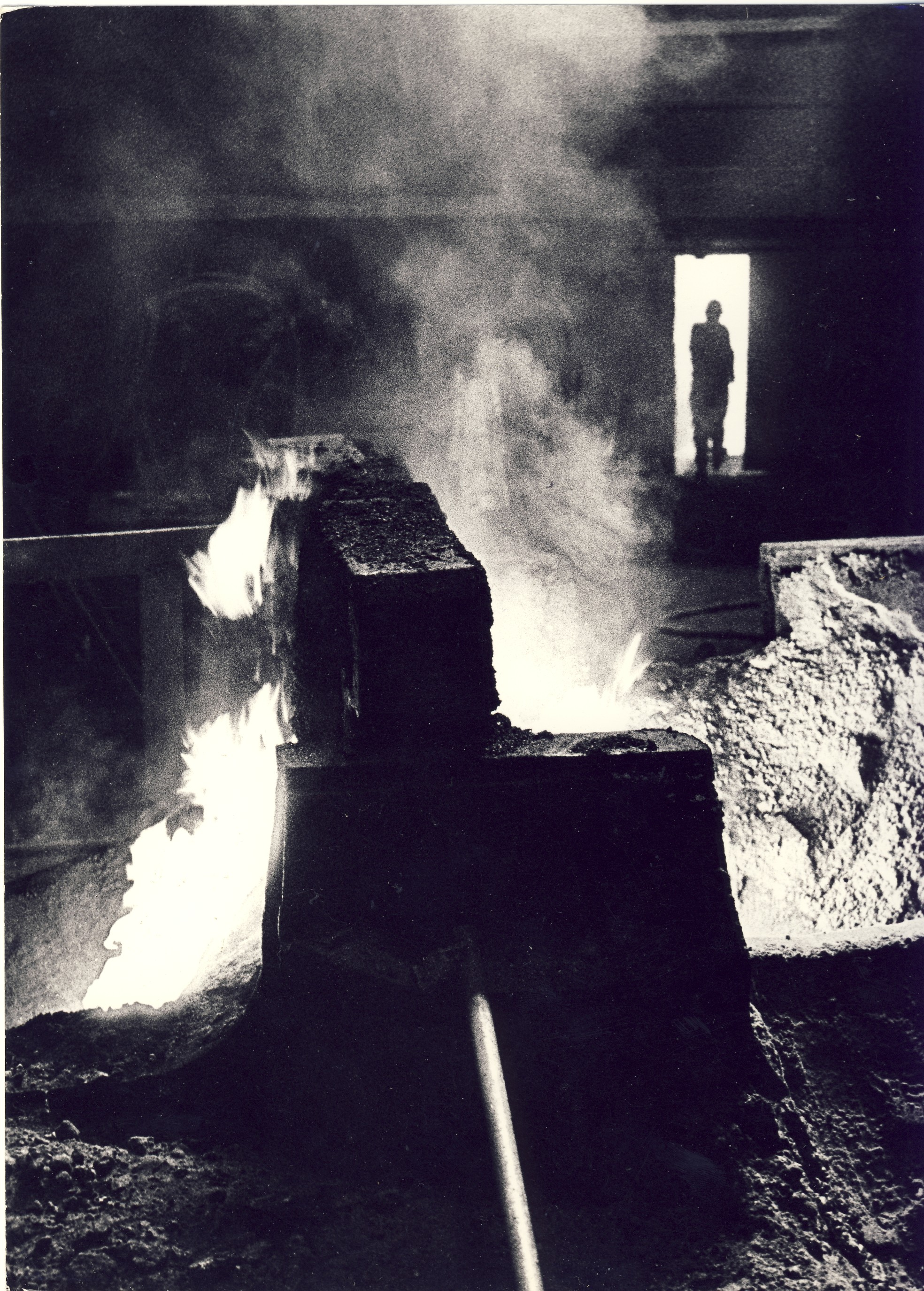 Jan Byrtus, Člověk a ocel